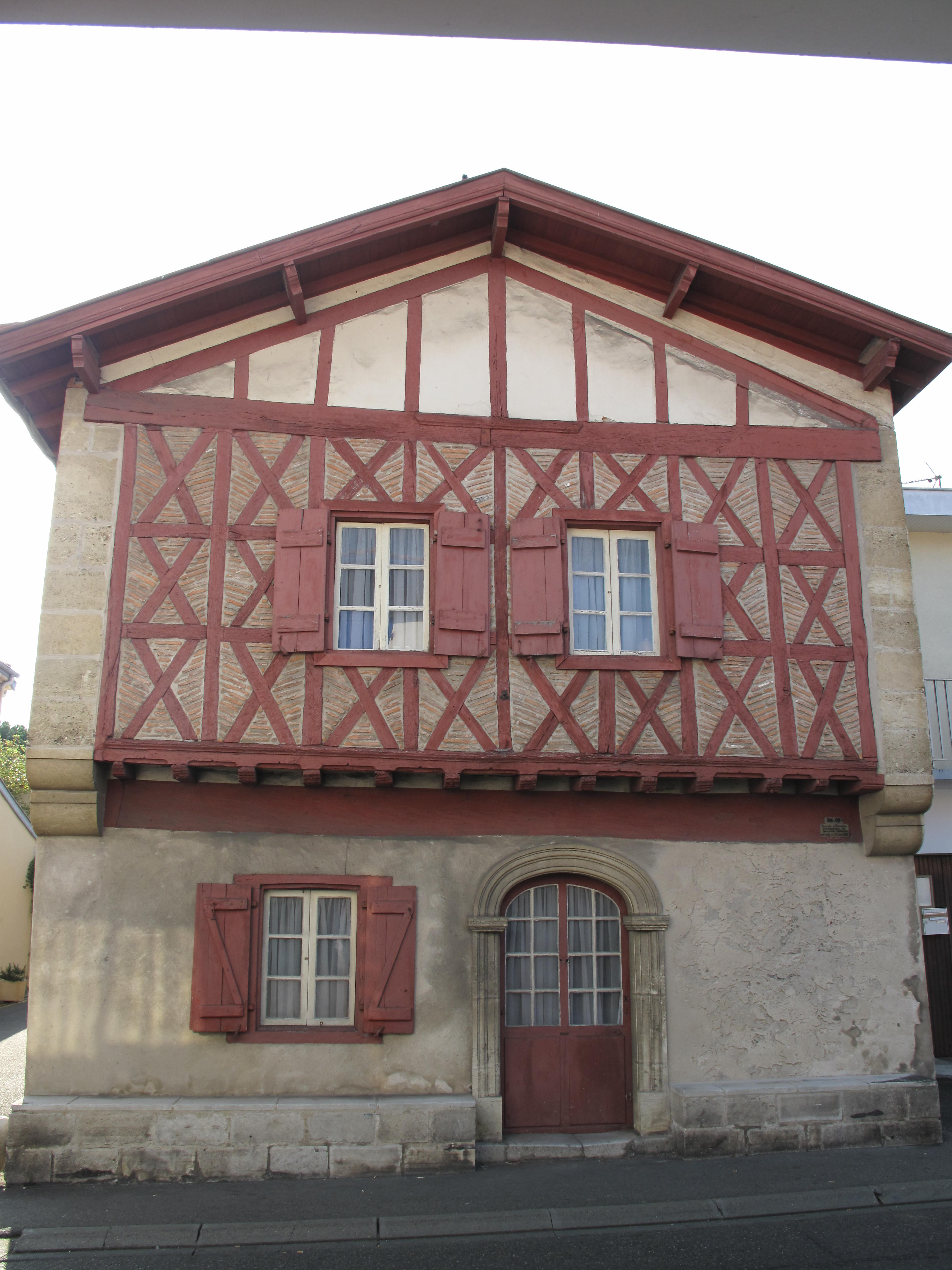 The "Maison du Rey" (=House of the king), Boulevard Jean Lartigau, in Capbreton (Landes, France), where the king Henry IV of France lived in 1583